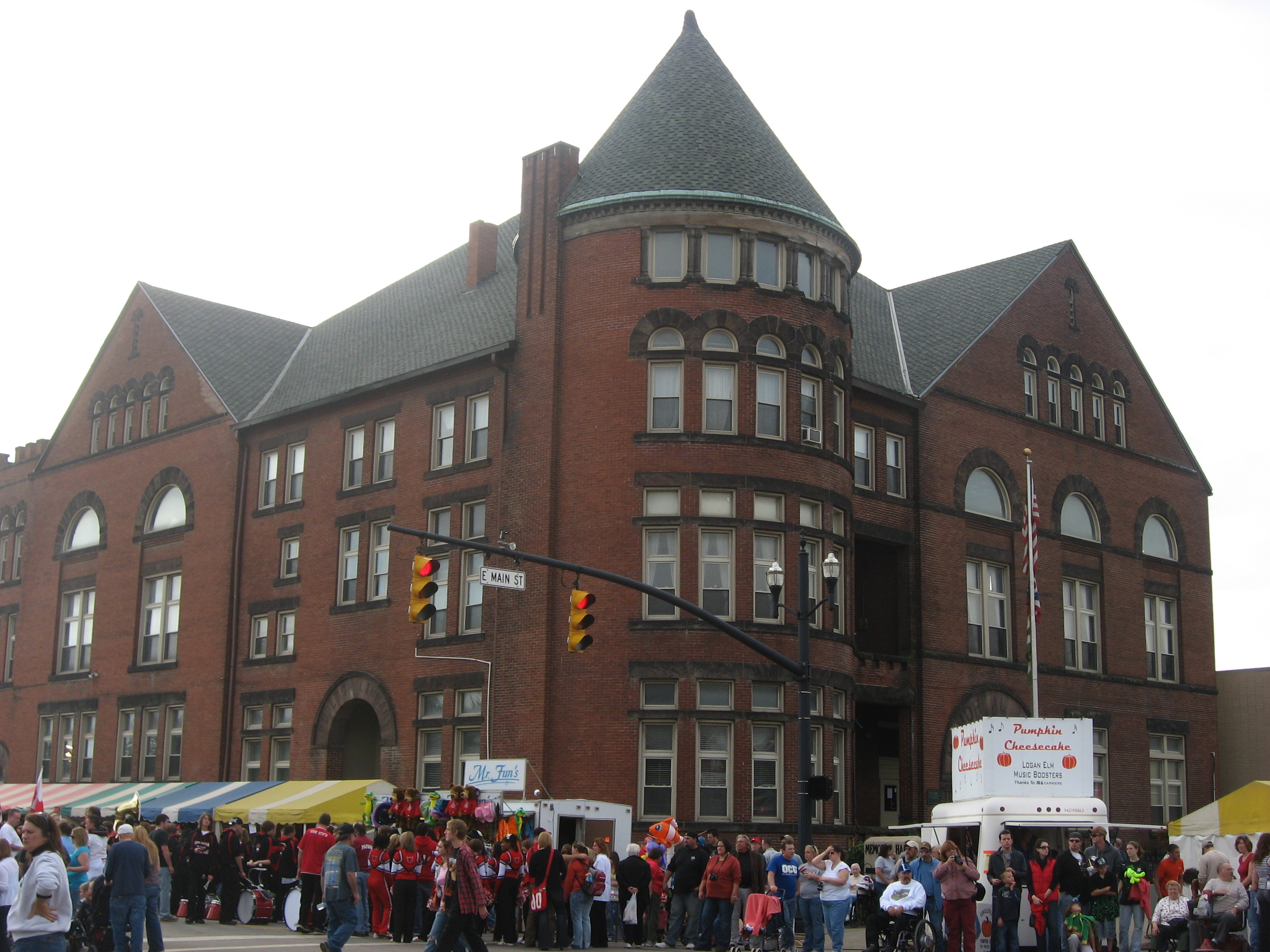 Northern and eastern sides of Memorial Hall, located at 165 E. Main Street in Circleville, Ohio, United States. Built in 1891, the hall is listed on the National Register of Historic Places. Photo is taken during the Circleville Pumpkin Show, which is centered very close to Memorial Hall.